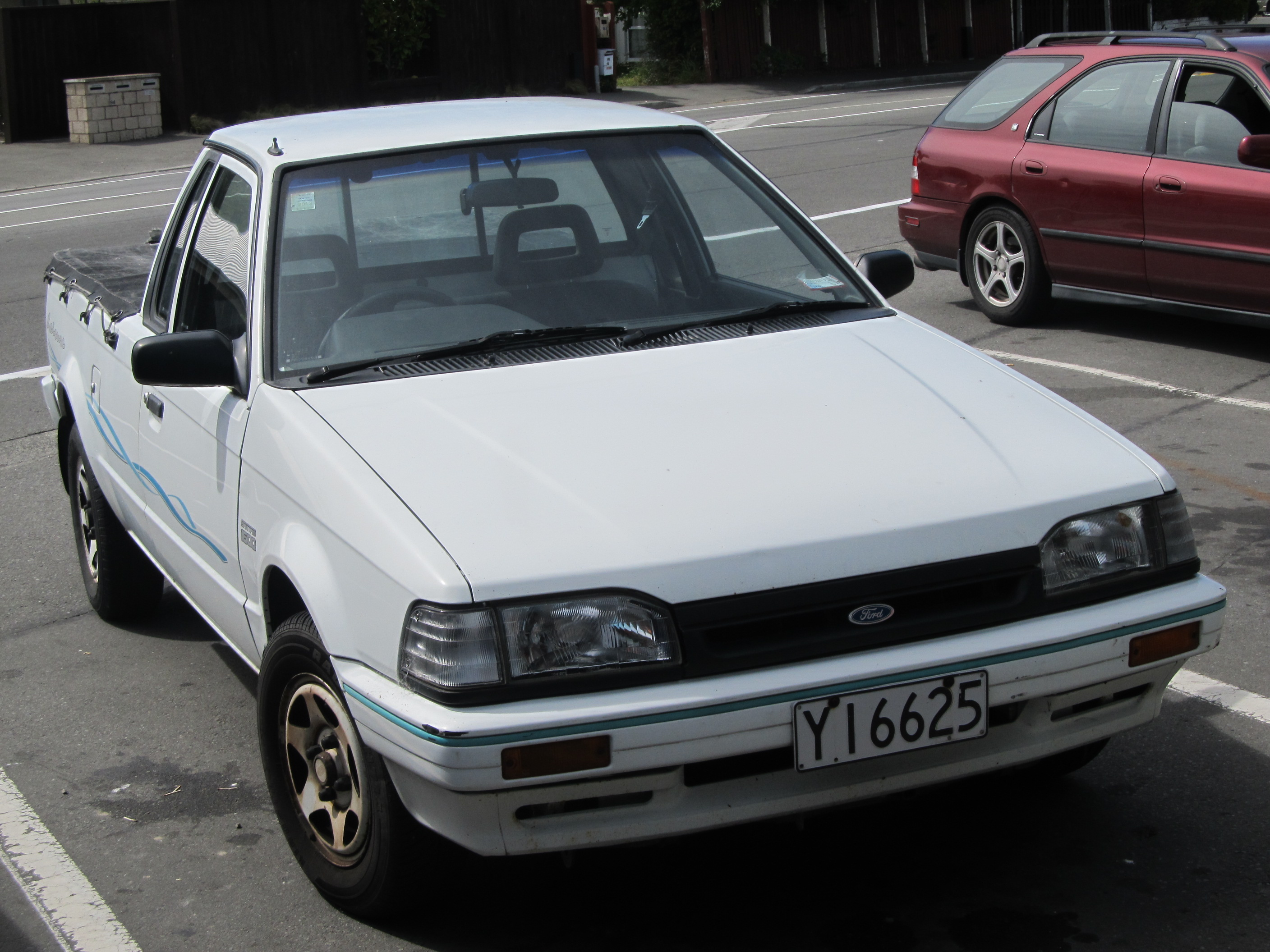 1996 Ford Bantam 1600 Leisure utility (South African specification), photographed in New Zealand. These are essentially a Ford Laser utility, only sold in South Africa where this was imported from. According to CarJam, this one was imported from South Africa in 1999. The Bantam with this front continued until 2002, by which time the basic design was 17 years old.